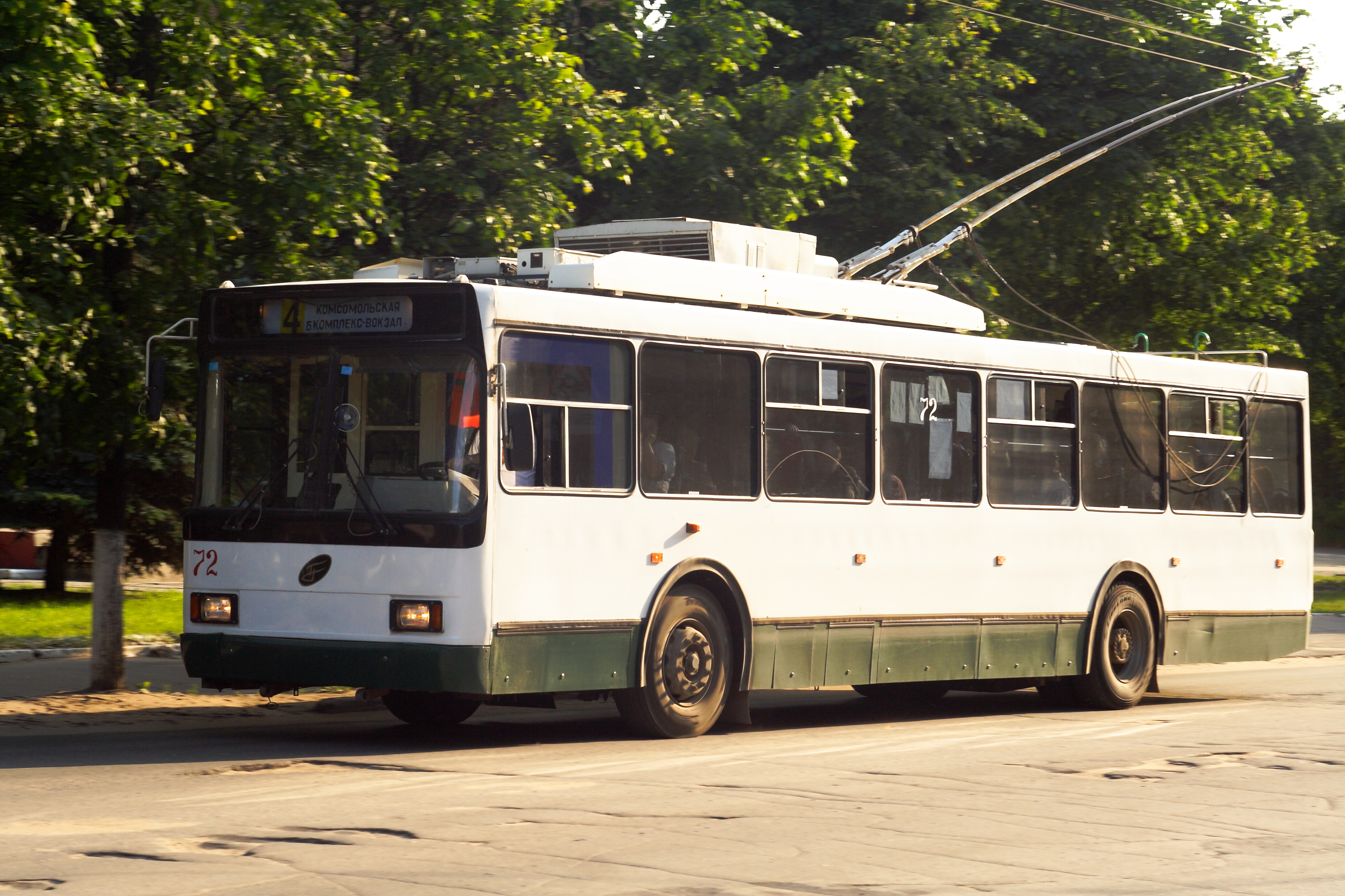 VMZ-5298.00 (VMZ-375) trolleybus # 72 in Kovrov.